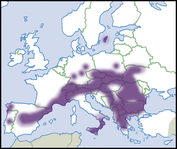 Oxychilus glaber (Rossmässler, 1835). Distribution in Europe, scientific state of knowledge of 2012. Source description in English. Light colour indicated rare occurrences or regions where the species could eventually be expected to occur. Dark colour indicated relatively reliable occurrences, as well as regions where the species was expected to occur, and where the species was not known to be extremely rare. Dark colour indications were not necessarily based on published records. Species summary in AnimalBase